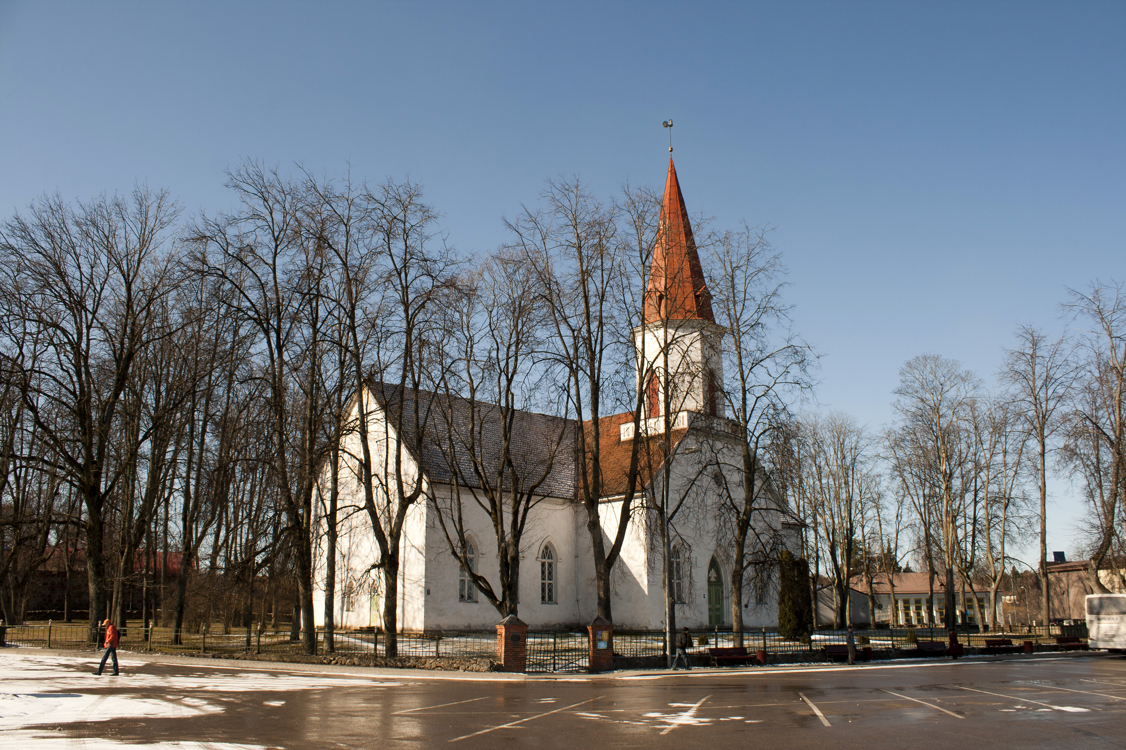 Smiltene Evangelical Lutheran ChurchLatviešu: Smiltenes evaņģēliski luteriskā baznīca